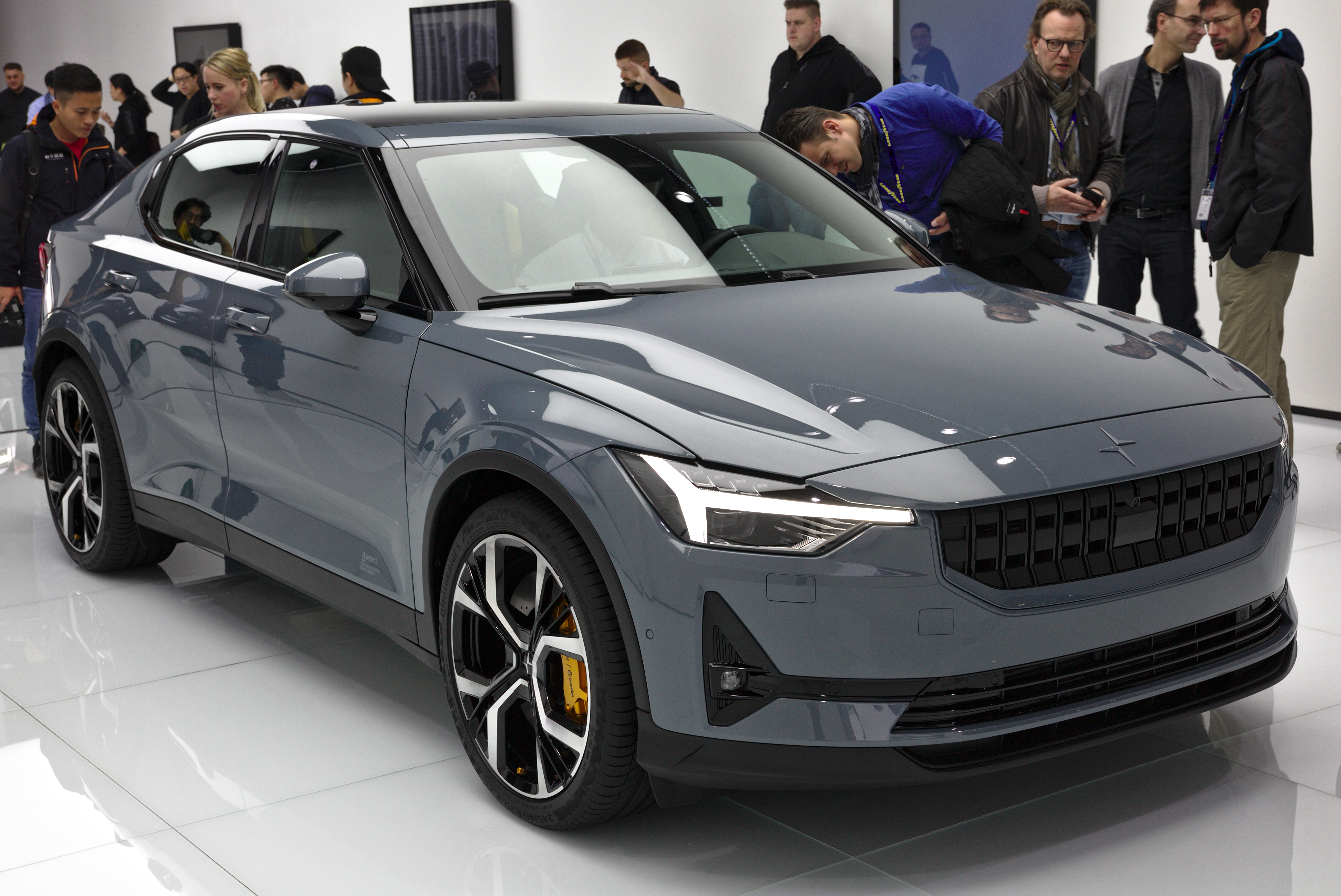 Polestar 2 at Geneva Motor Show 2019